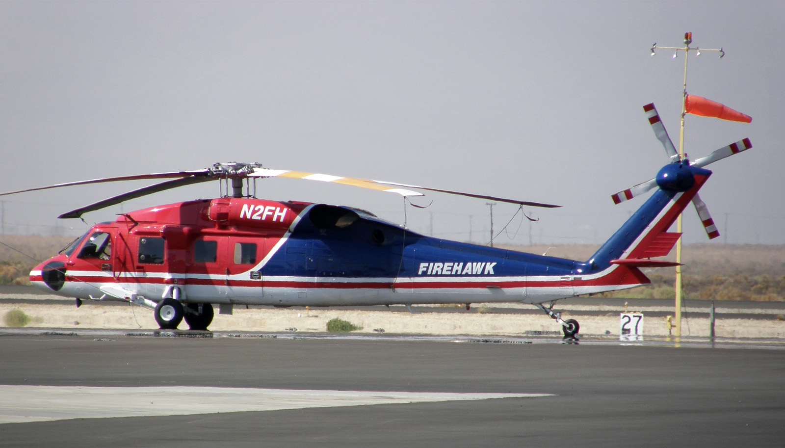 S-70C Firehawk de Brainerd Helicopters en Fox Field, Lancaster, California